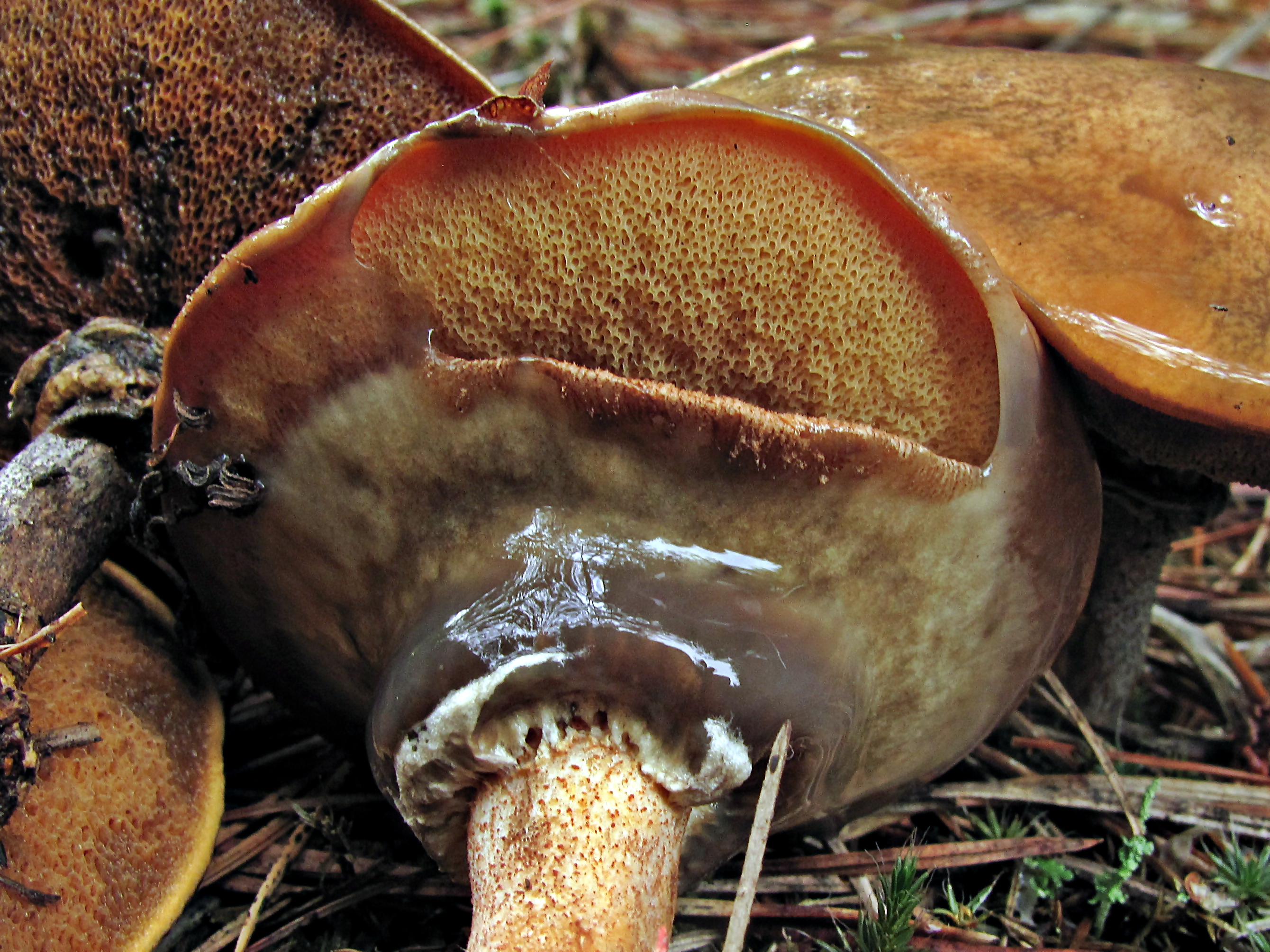 A fruit body of the bolete fungus Suillus salmonicolor showing the booted slimy partial veil characteristic of the species. Specimen photographed in Oneida Co., New York, USA.